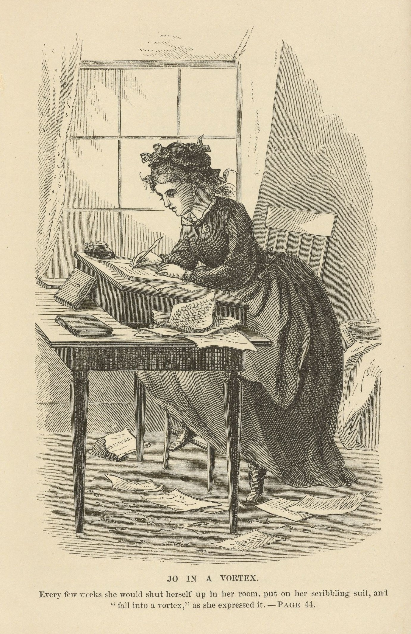 Illustration from: Little Women, volume II, by Louisa May Alcott (1832-1888). Boston: Roberts Brothers, 1869. *AC85.Aℓ194L.1869 pt.2aa, Houghton Library, Harvard University